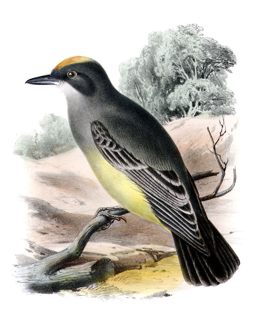 Cassin's Kingbird , Tyrannus_vociferans, hand-colored lithograph